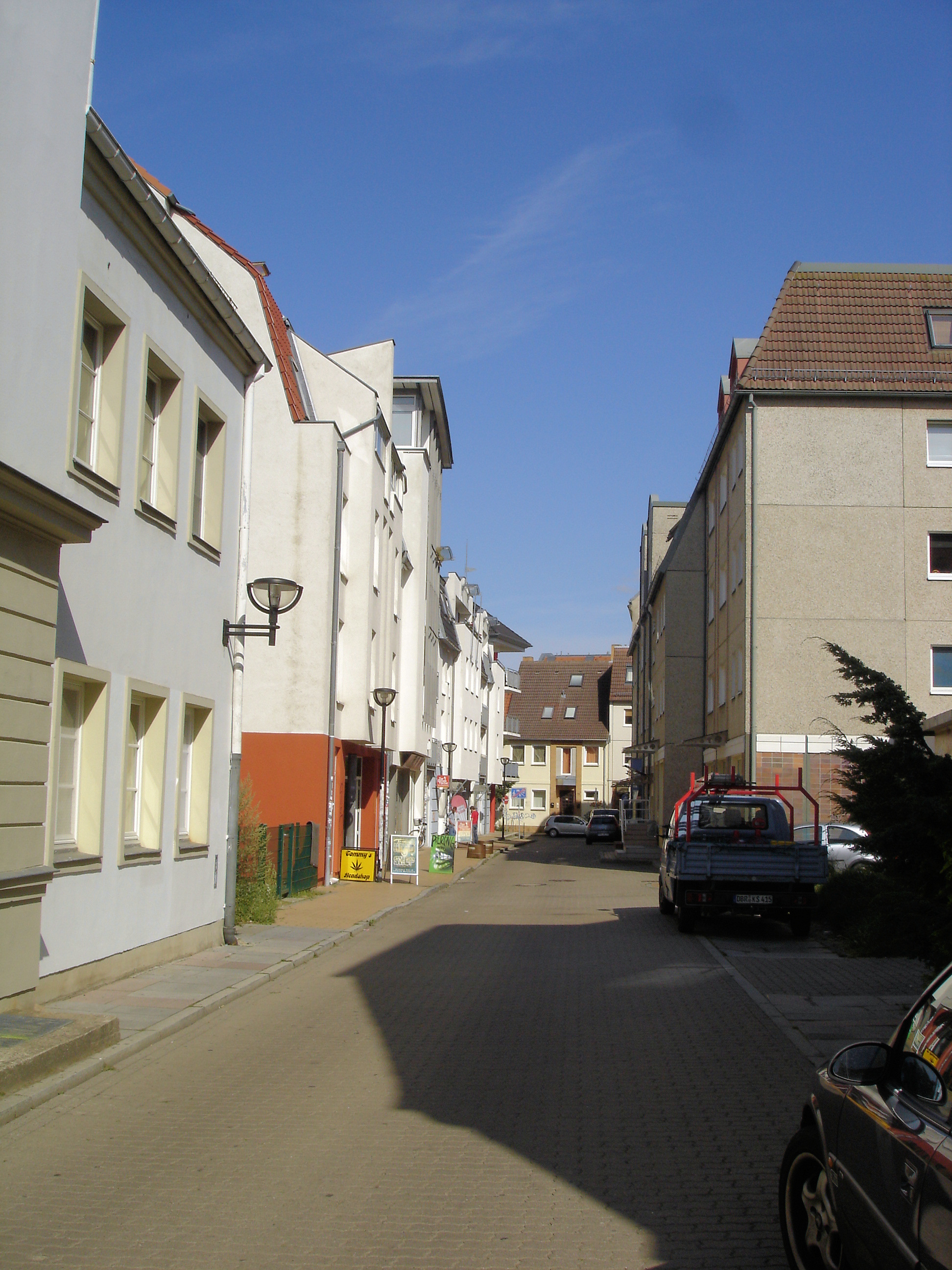 Street in the historic city of Rostock